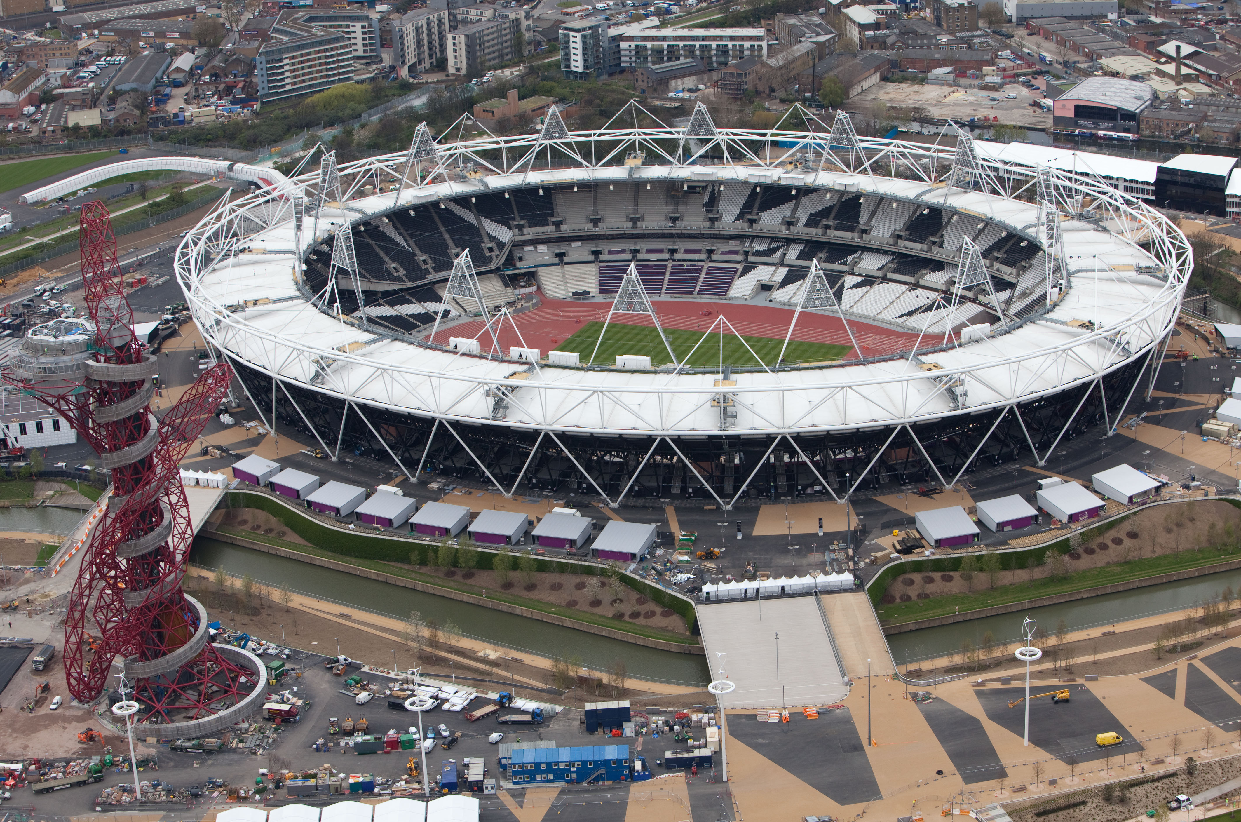 Aerial view of the Olympic Park showing the Olympic Stadium with the Orbit to the left. Picture taken on 16 April 2012.